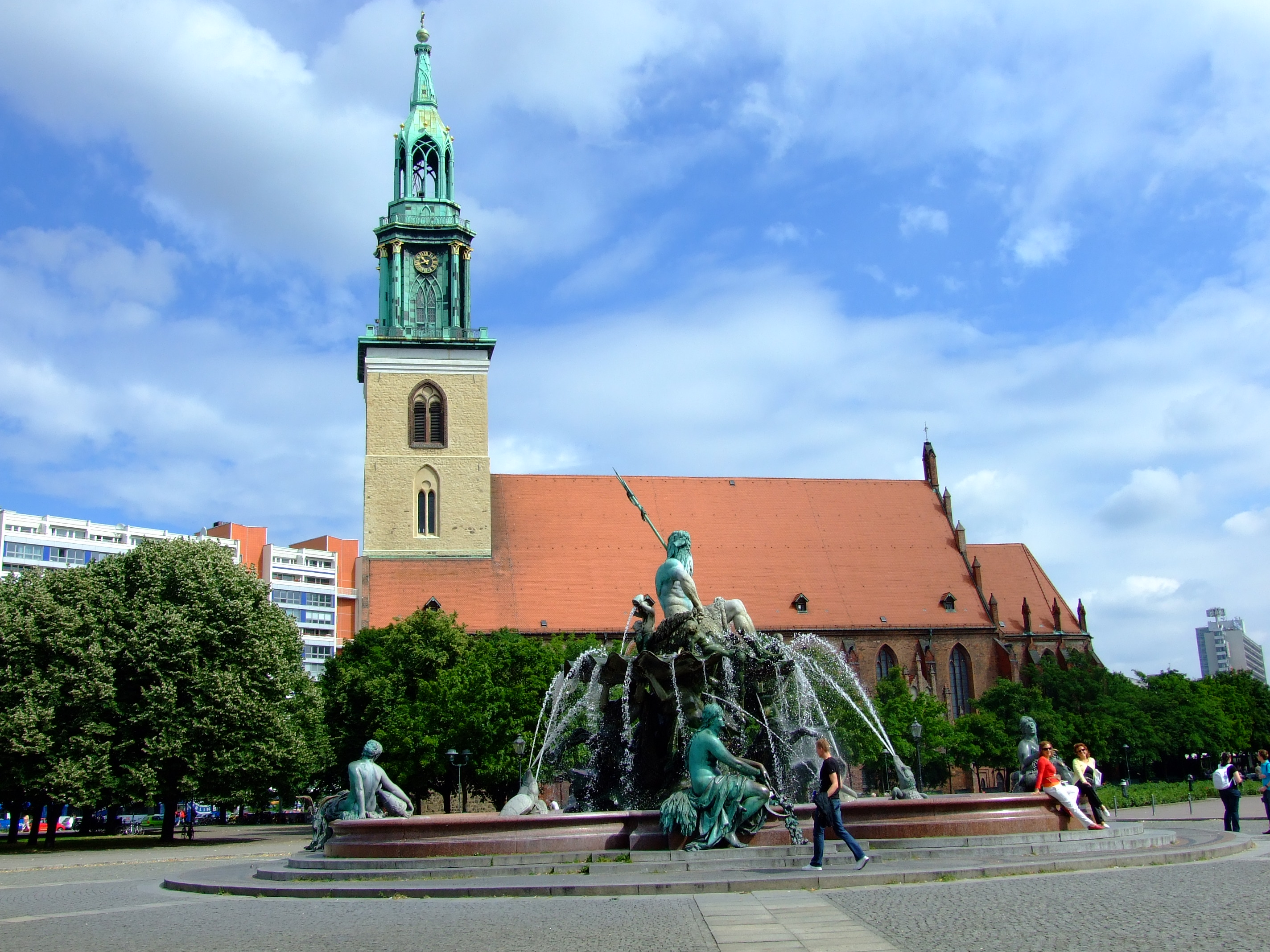 Marienkirche church in Berlin, central part of the cityhelp